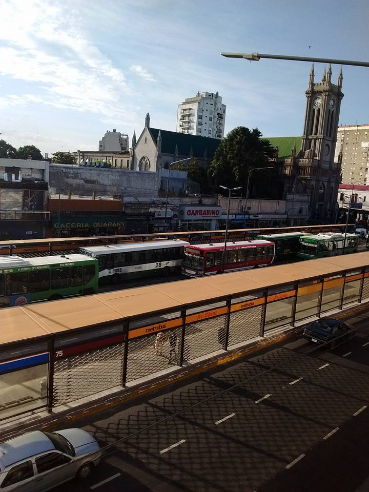 Nueva Pompeya 2015